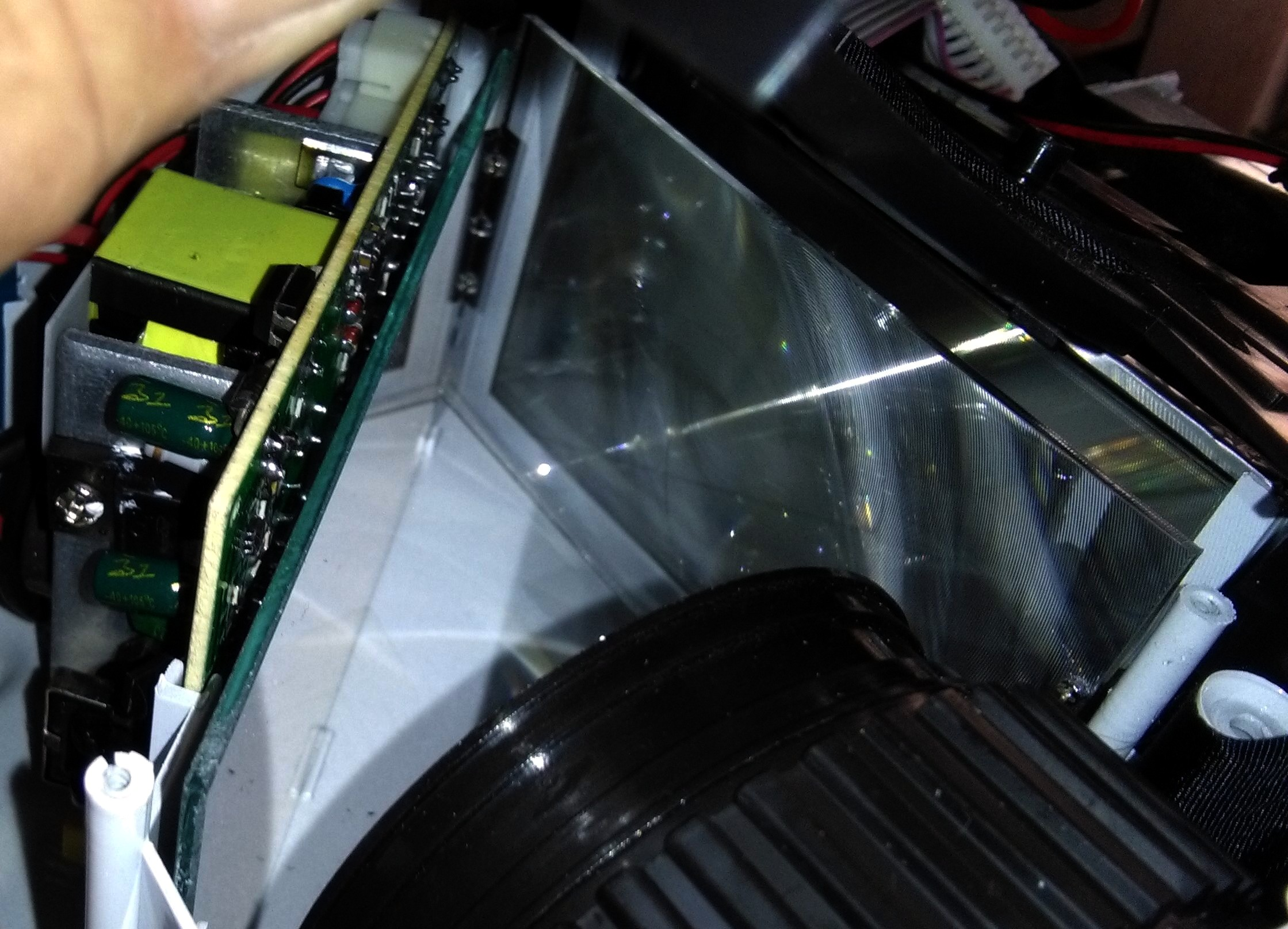 Inside of a 4.5 inch mono-LCD projector's panel with Fresnel lenses, 45º reflecting mirror and a triplet-lens